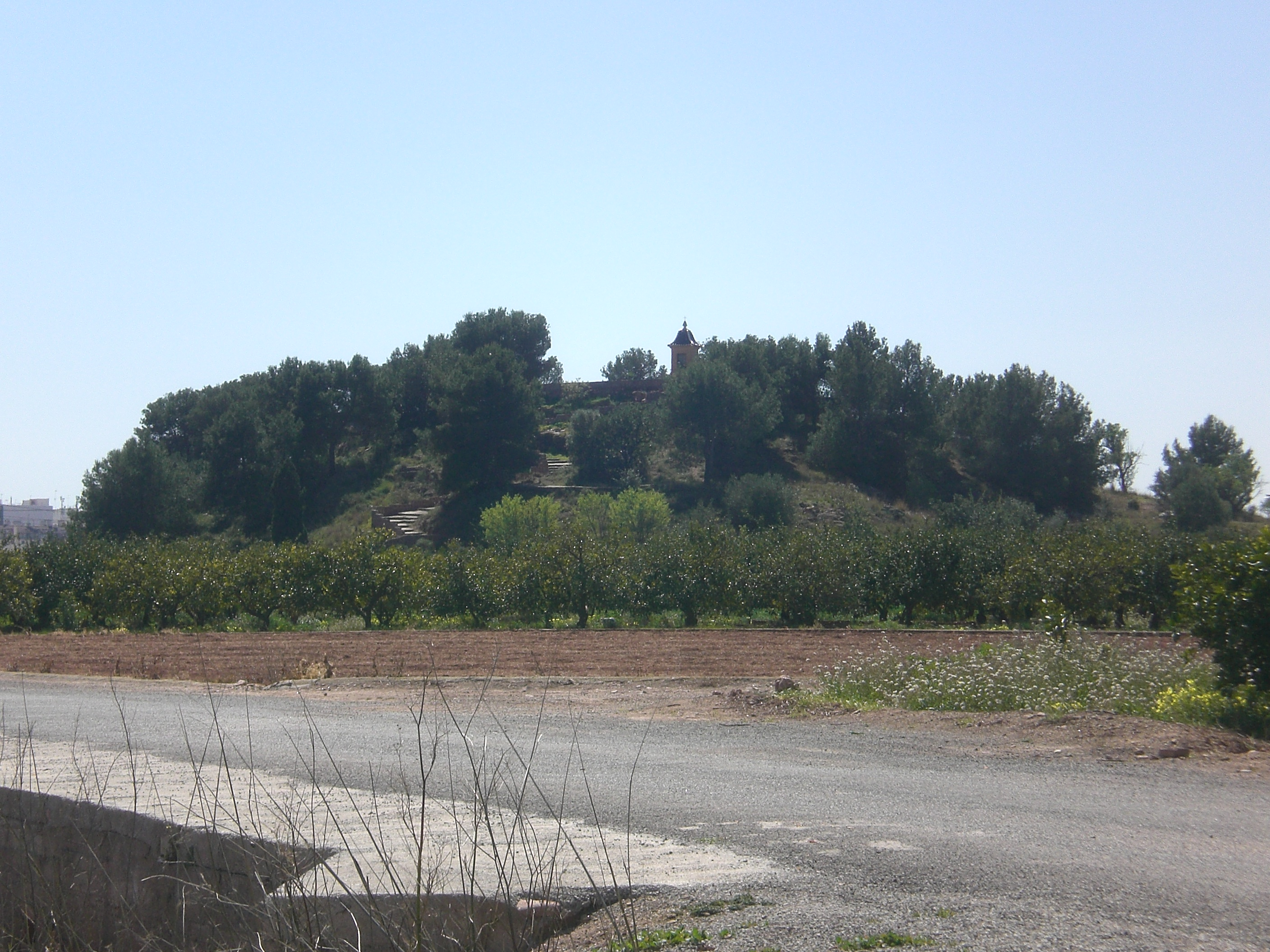 Montaña de Cabeçol